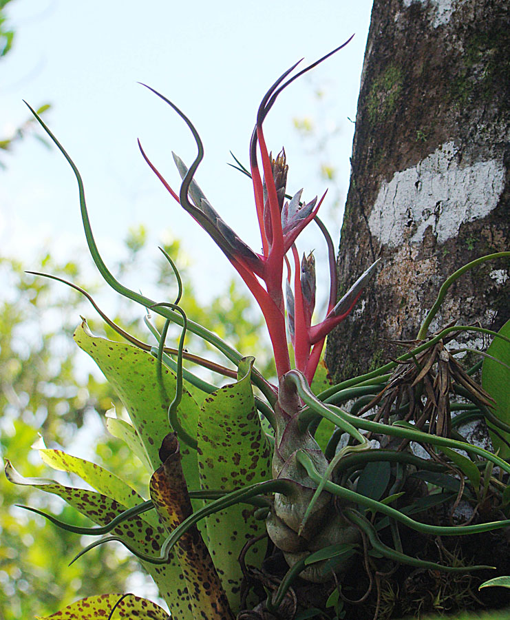 An epiphytic bromeliad of the northern neotropics, here on Zapatillos Island, northwestern Panama. In context at